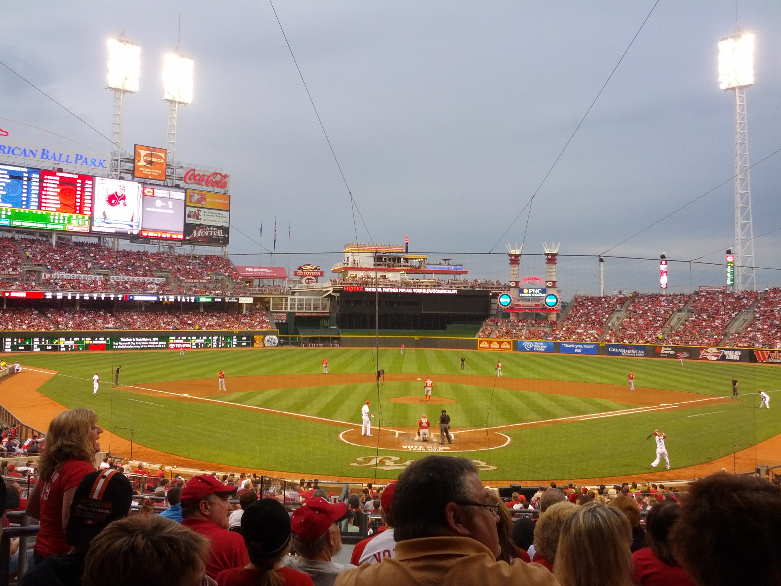 May 12, 2012 Reds game versus the Nationals. View from behind home plate.